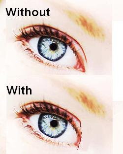 Eye without and with epicanthal fold